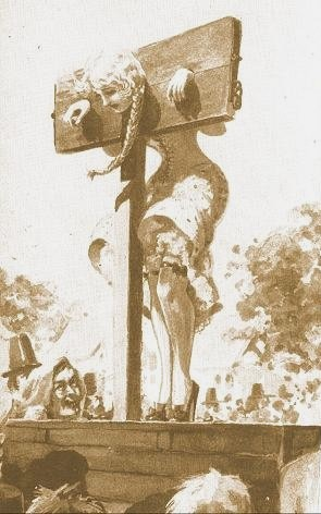 Painting of S/M sexuality